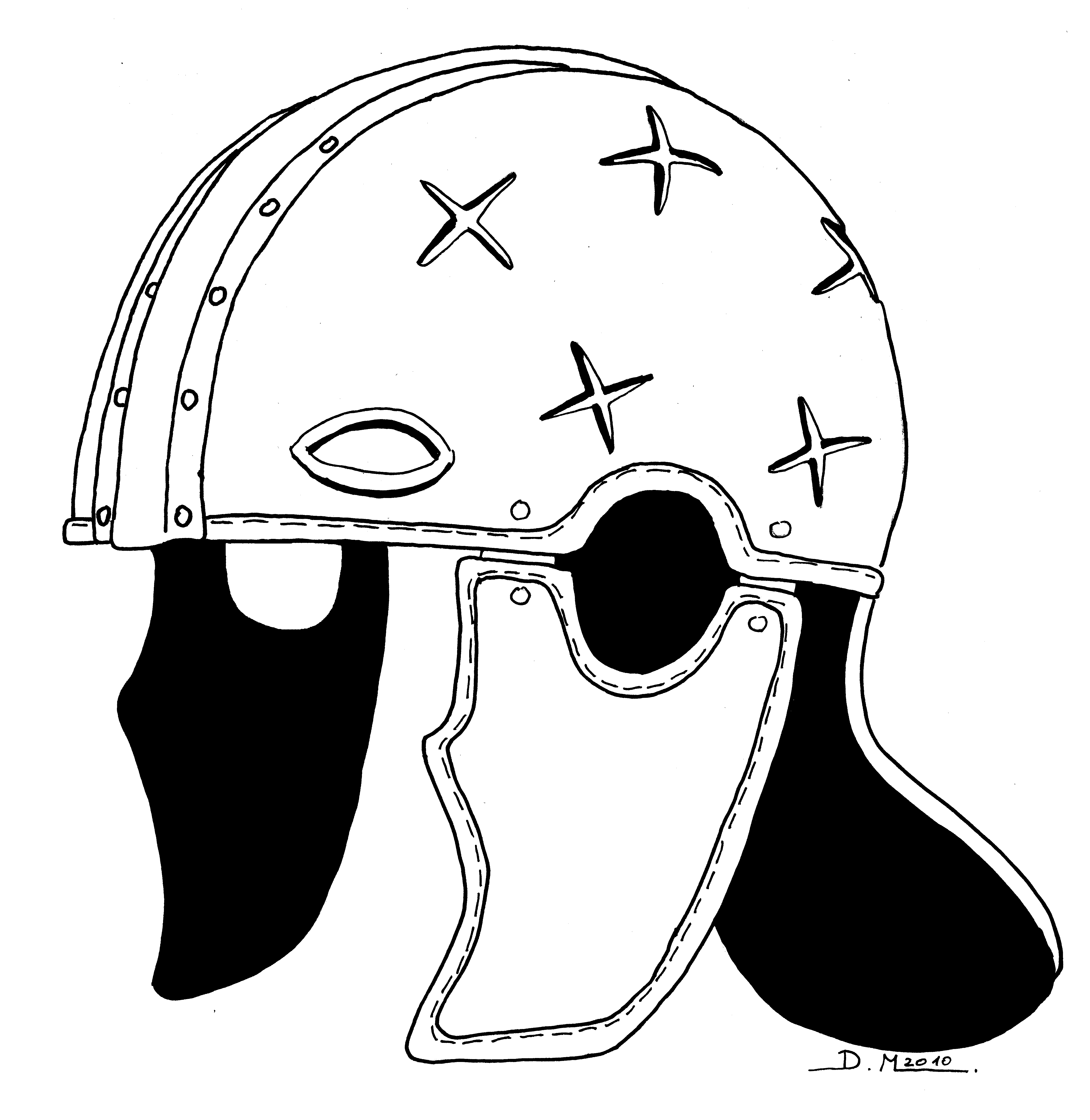 Roman helmet Intercisa 2